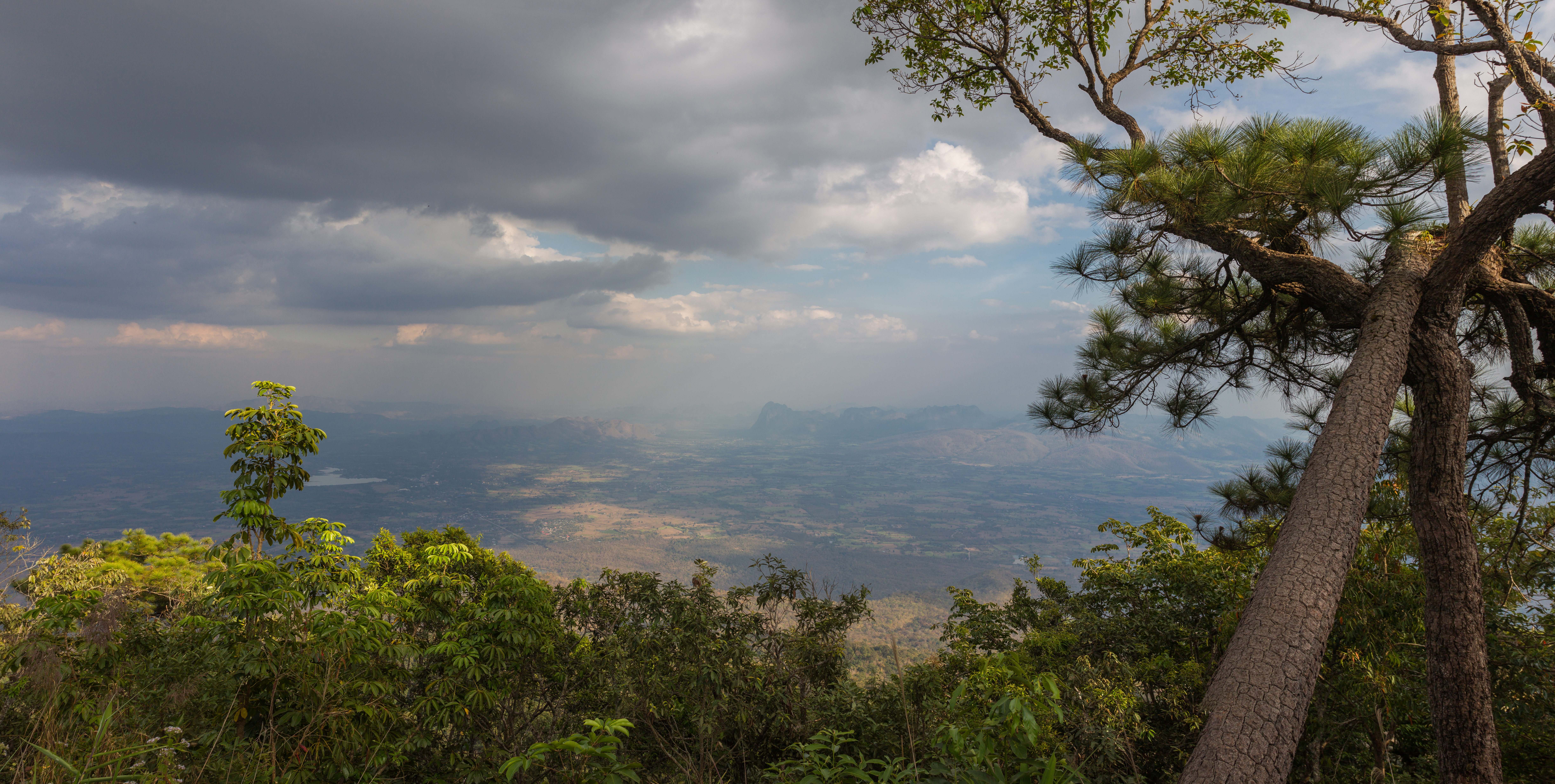 Panoramic view from Lang Pae or Mountaintop on Phu Kradueng Mountain in the Si Than sub-district of Amphoe Phu Kradueng, Loei Province.